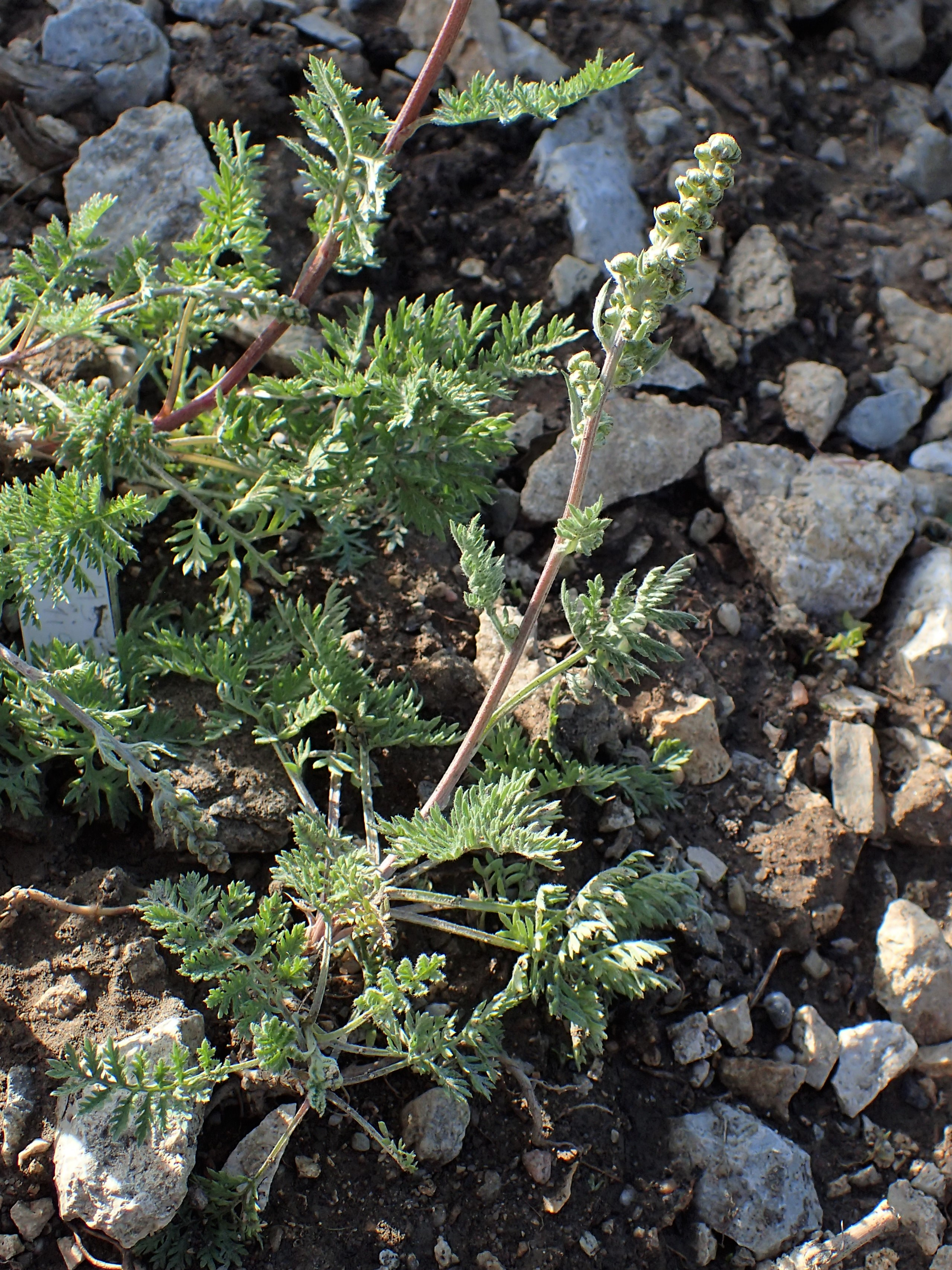 Artemisia atrata in Jibou Botanical Garden